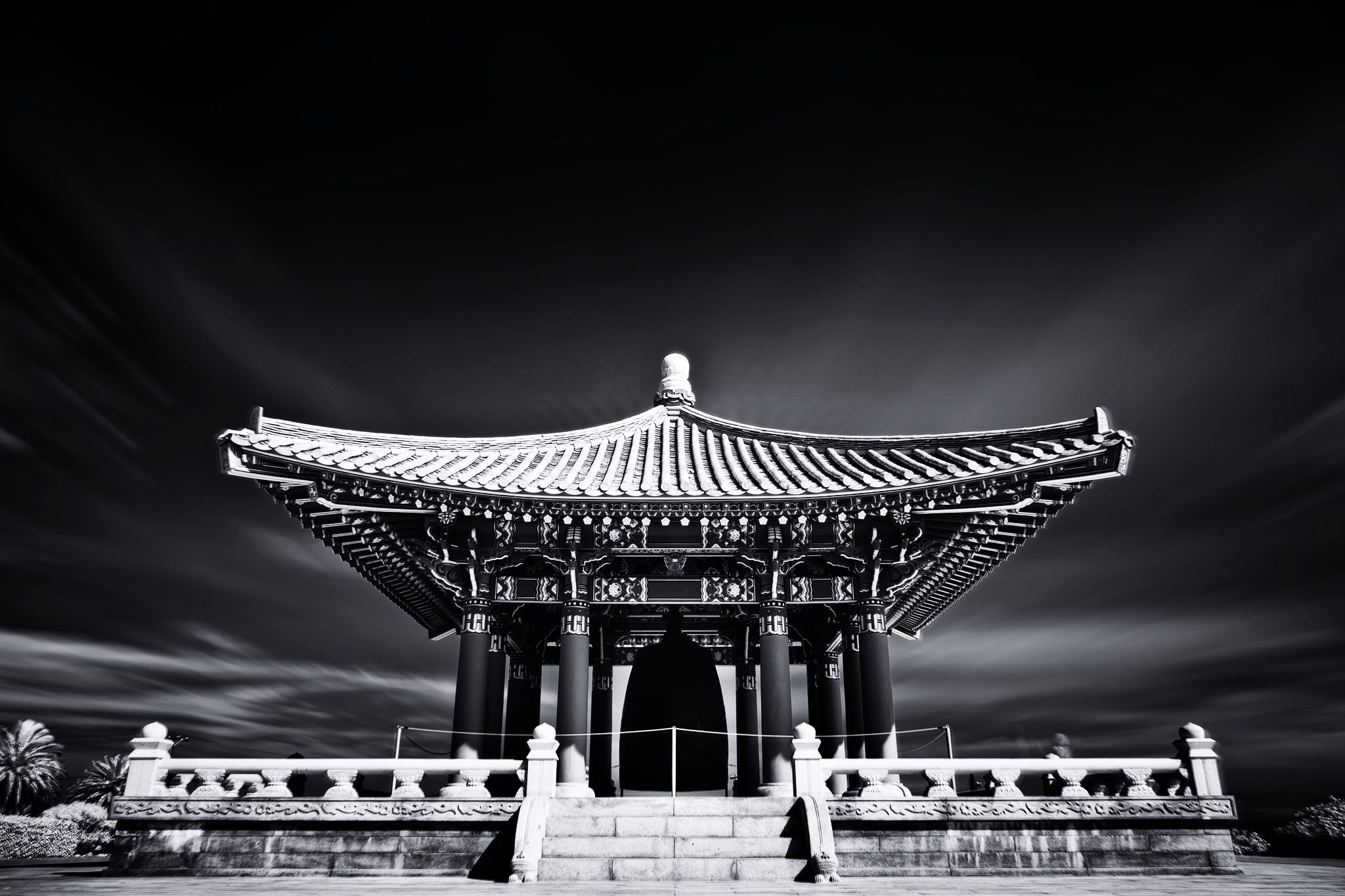 Korean Bell of Friendship, San Pedro, Los Angeles.